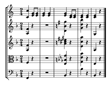 Excerpt, last four measures, from Wolfgang Amadeus Mozart's Ein Muskalischer Spaß for two horns, first violin, second violin, viola, and cello, showing his experiment of multitonality. Engraved with Lilypond 2.4.2.